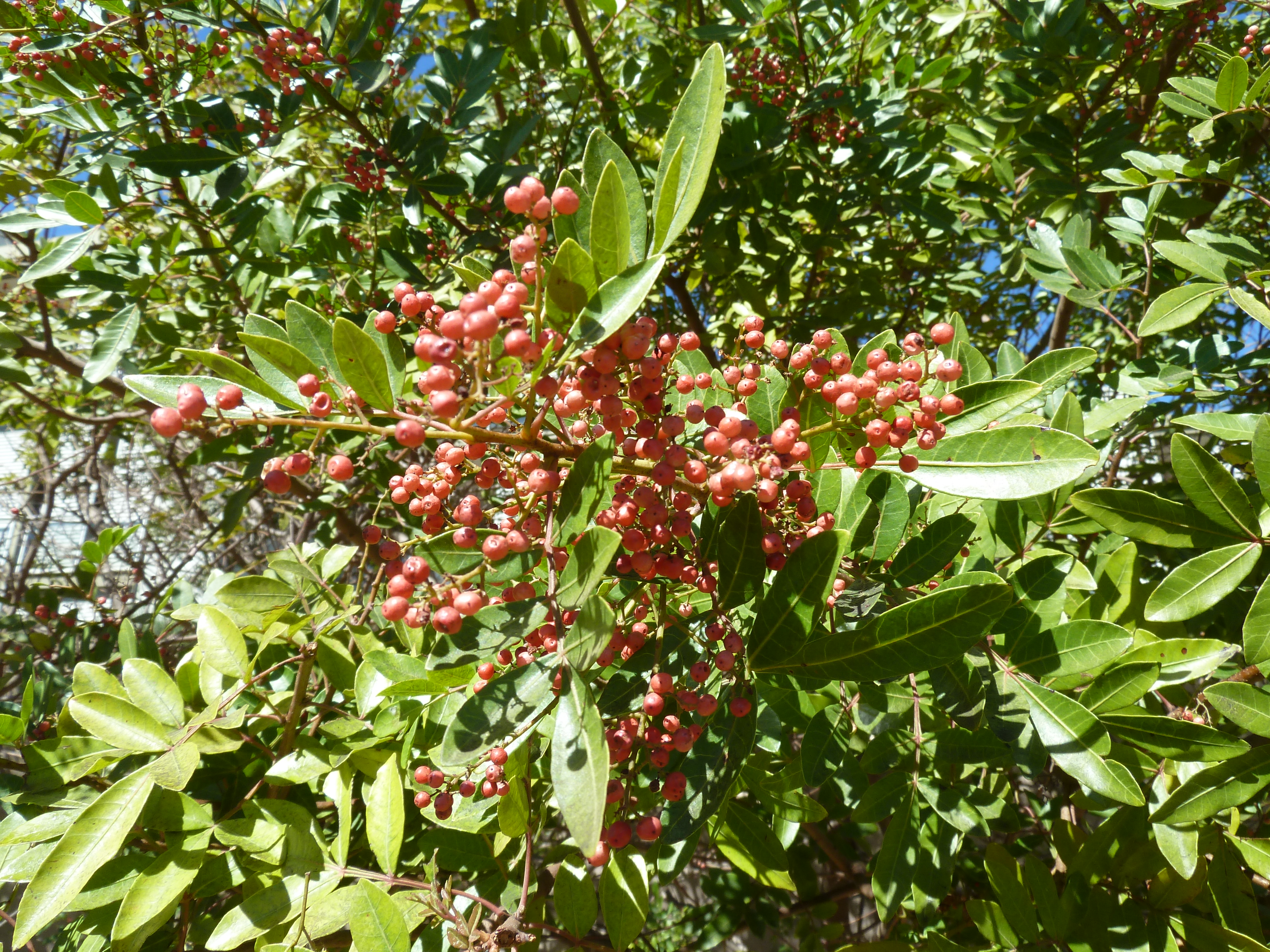 Foliage and fruit of a Brazilian Pepper Tree in Pretoria